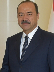 Uzbek Prime Minister Abdulla Aripov